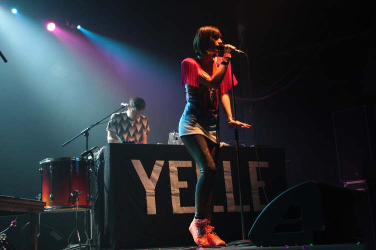 Originally posted on Flickr by user itz. as yelle_3